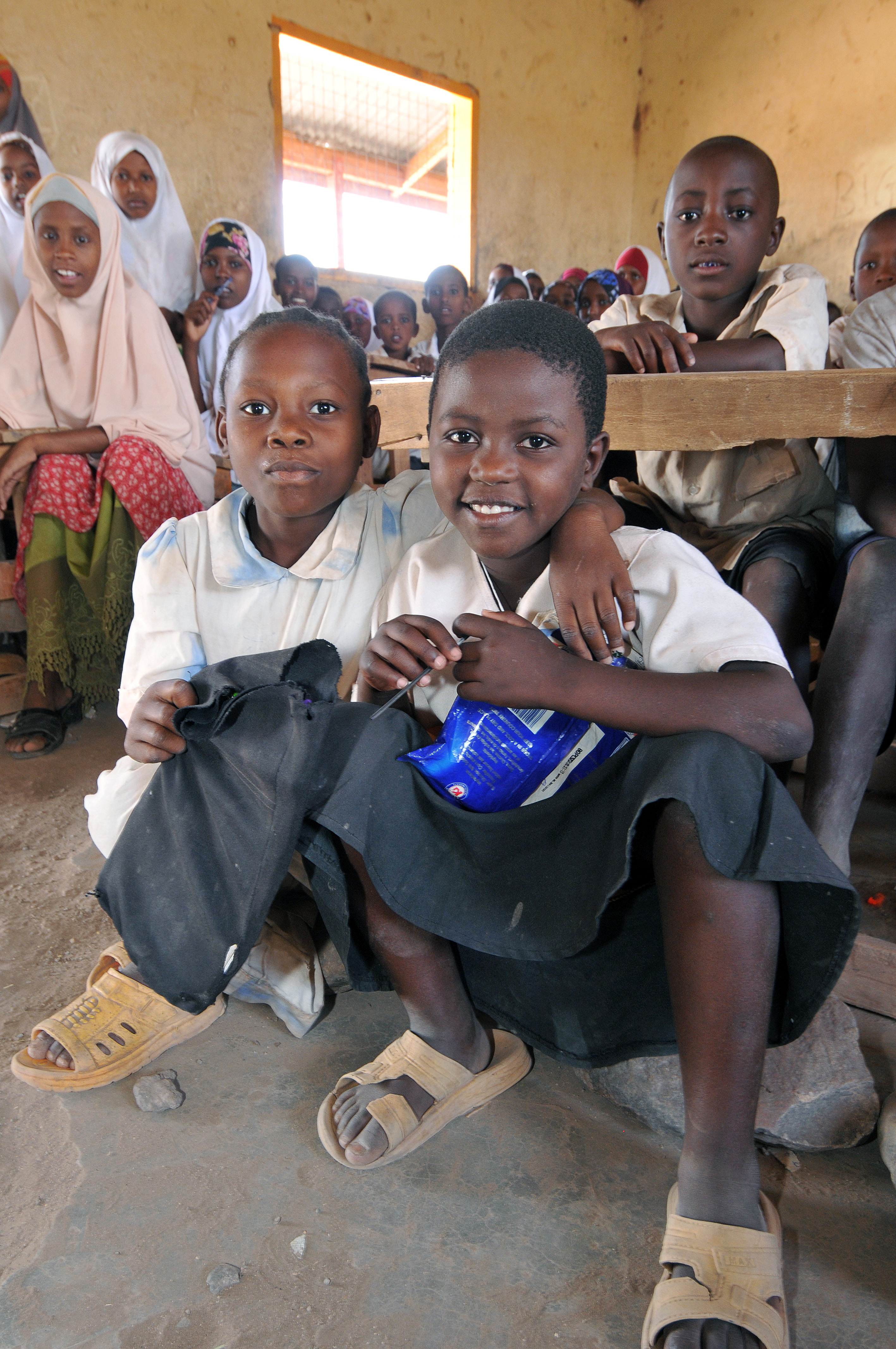 (2011 Education for All Global Monitoring Report) -School children in Kakuma refugee camp, KenyaRomână: Raportul de monitorizare „Educație pentru toți”, 2011: Elevi în tabăra de refugiați Kakuma din Kenya